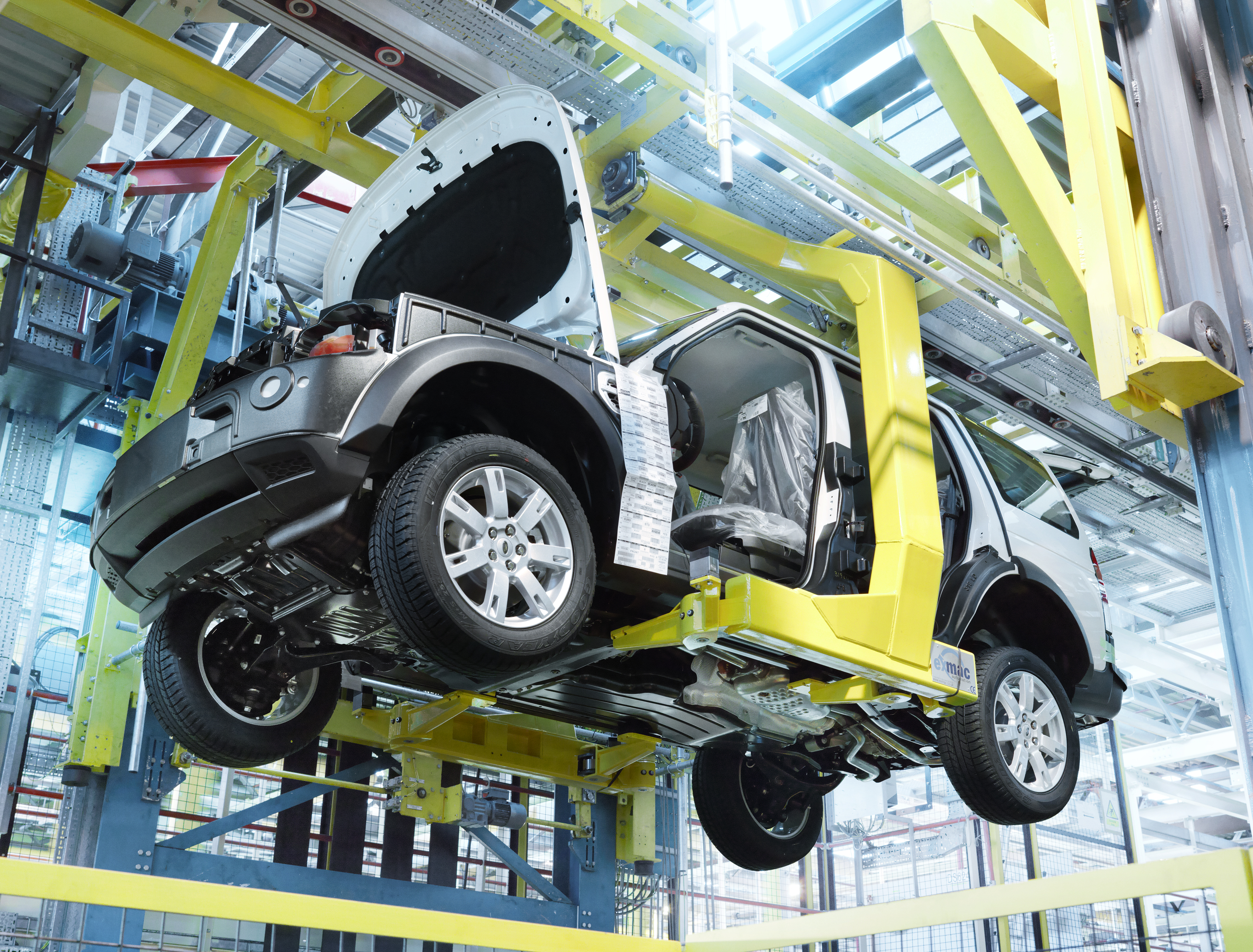 1m_discoverybuild_solihull_18